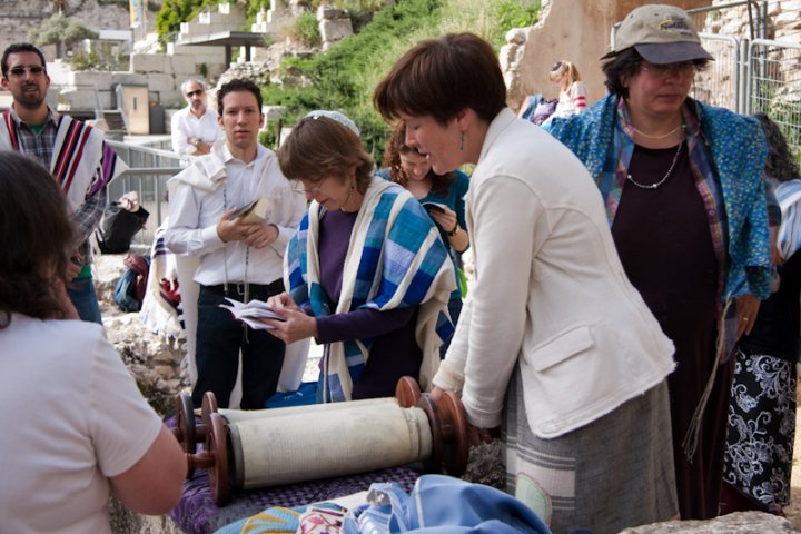 Women of the Wall on Rosh Chodesh, at Torah reading.